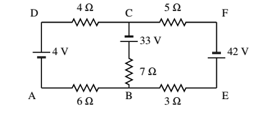 Circuito com duas malhas